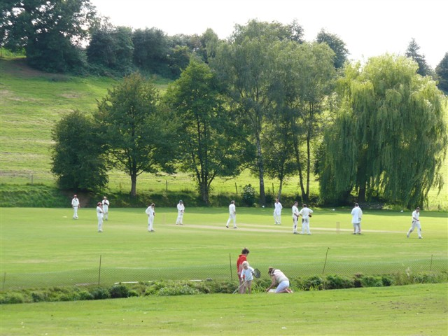 Abinger Hammer Cricket Pitch A summer weekend scene with cricket on the green, and children playing in the Tillingbourne.